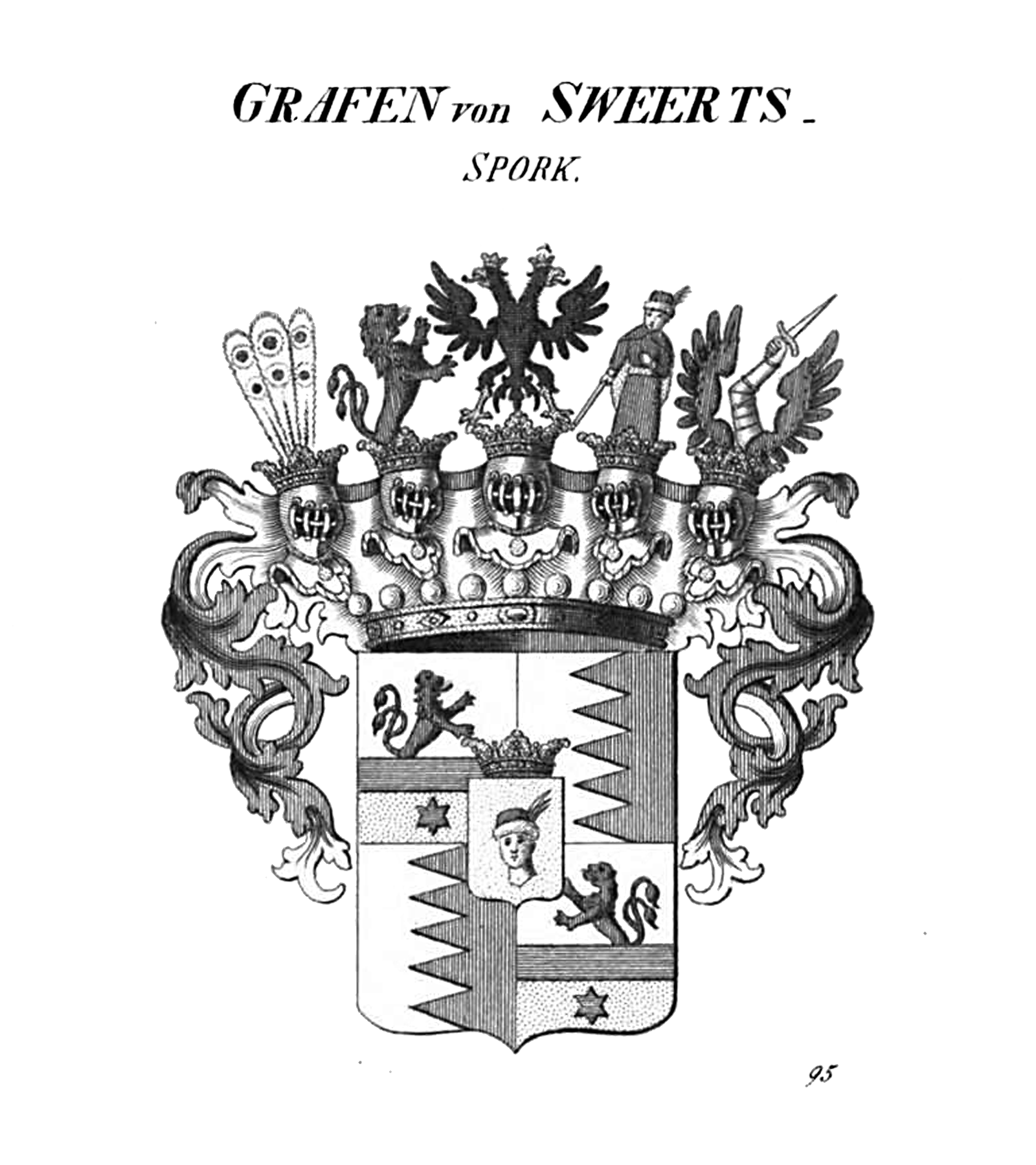 Coats of Arm of Sweerts Spork (Counts)